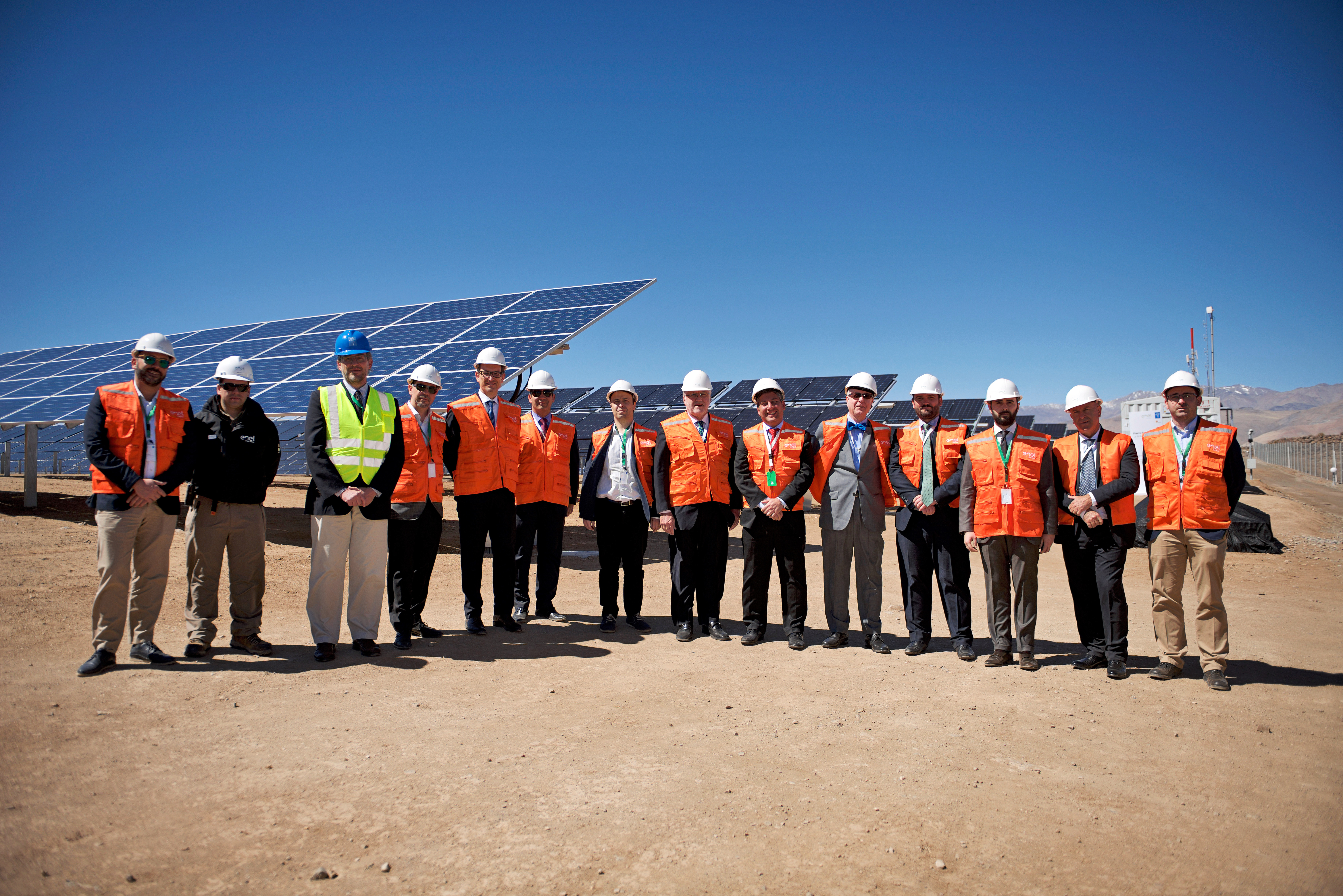 ESO and Enel Green Power announced the entry into service of the La Silla solar photovoltaic plant in northern Chile on 23 September 2016. Named after ESO’s La Silla Observatory, this new photovoltaic solar plant will supply the astronomical observatory with clean energy through a power purchase agreement. At the centre (the eighth from left to right) is His Excellency Máximo Pacheco Matte, Chilean Minister of Energy. To his right are Claudio Ibáñez, Intendent of the Coquimbo Region and His Excellency the Spanish Ambassador in Chile, Carlos Robles. In the blue helmet is Giorgio Filippi, ESO Project Manager of La Silla Photovoltaic Plant. Other distinguished guests and representatives of Enel and Soltec are also standing in front of the plant.